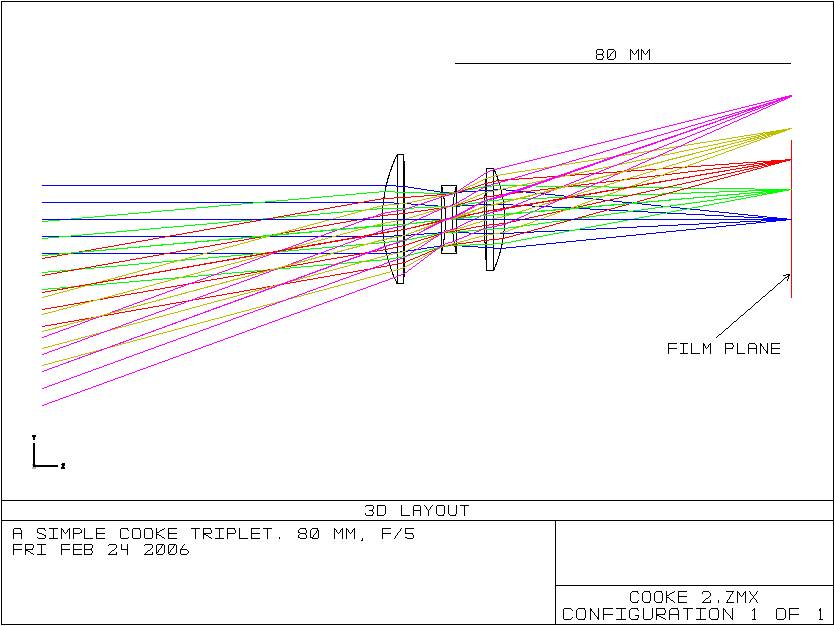 An 80 mm Cooke triplet lens, with f/5 aperture. The image overfills the film frame shown.